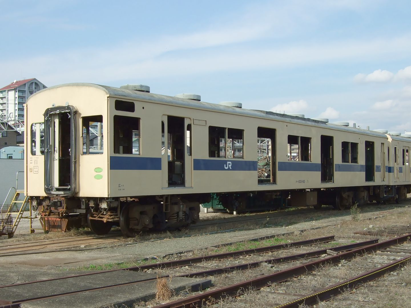 Company:JR West Type:EMU 103 Code:クハ103-95 Location:at Shimonoseki Railway Yard, Shimonoseki, Yamaguchi, Japan